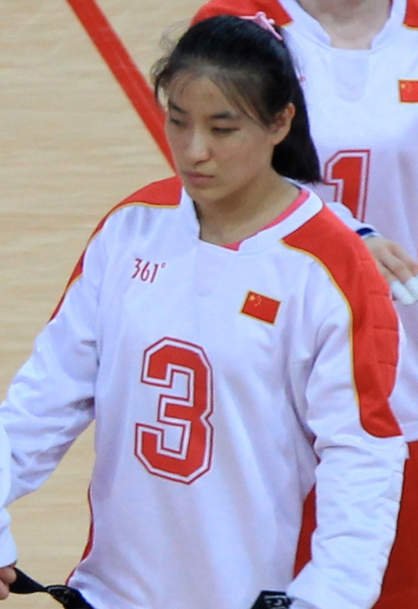 Lin Shan